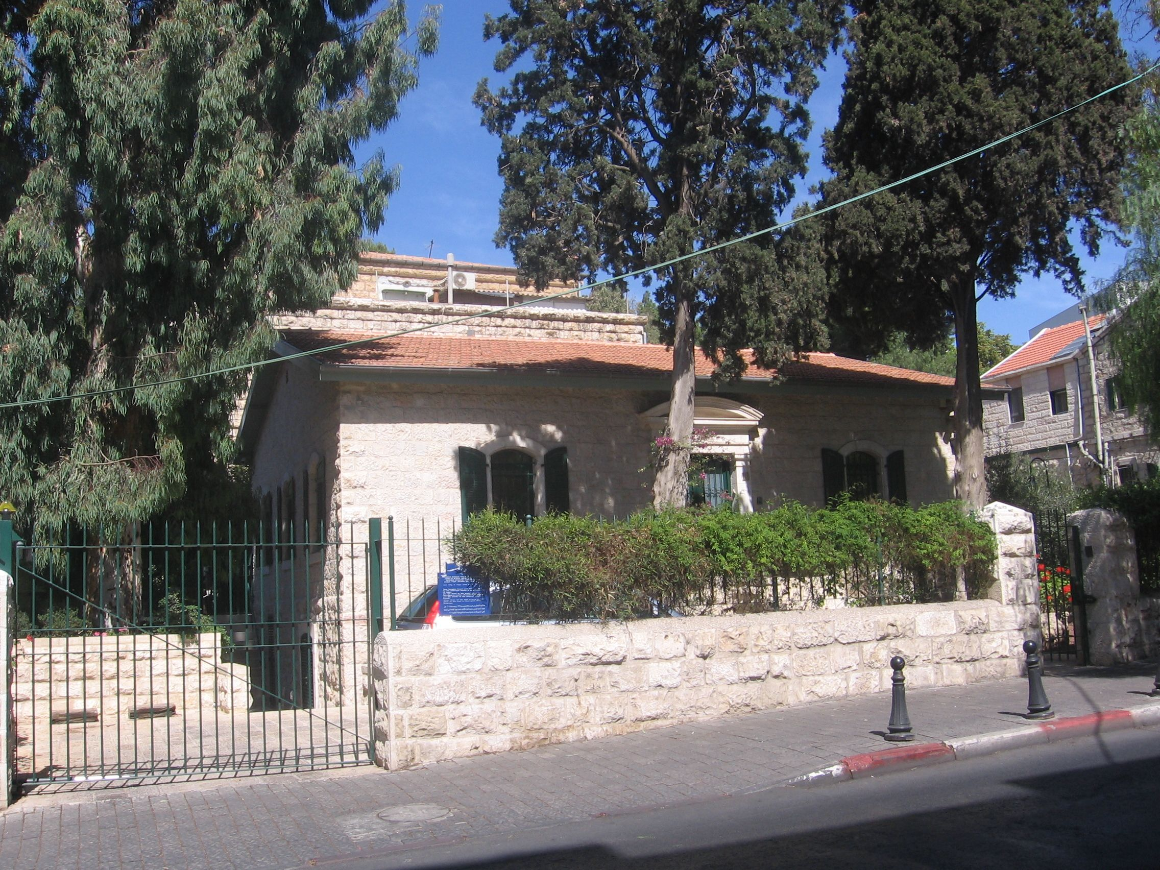 Imberger's house, Jerusalem.